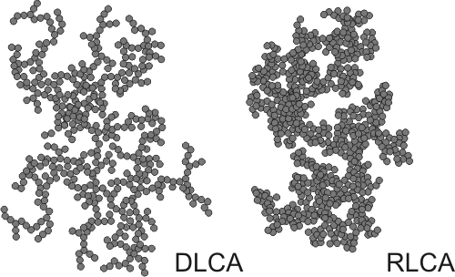 This scheme depicts the difference between an DLCA and RCLA particle aggregate